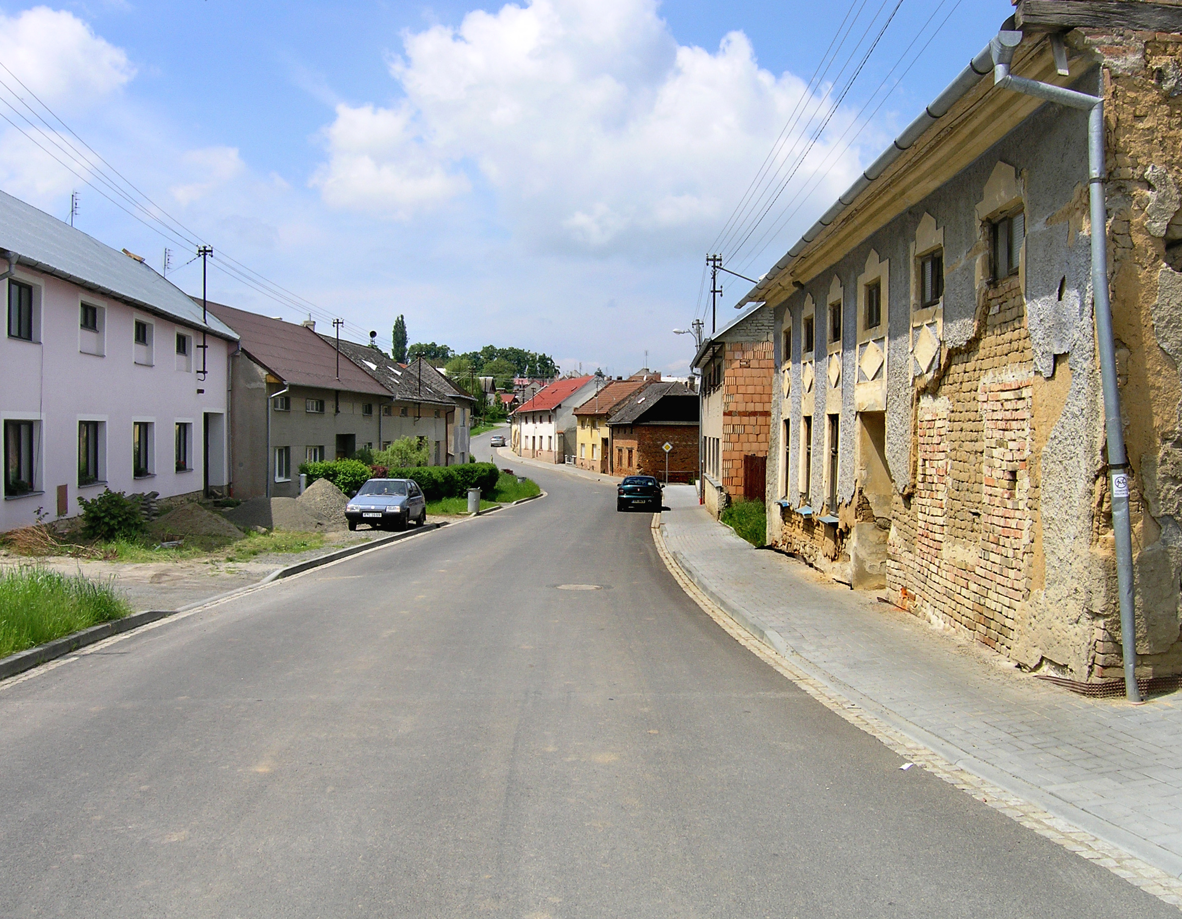 Main street in Slížany, part of Morkovice-Slížany town, Czech Republic